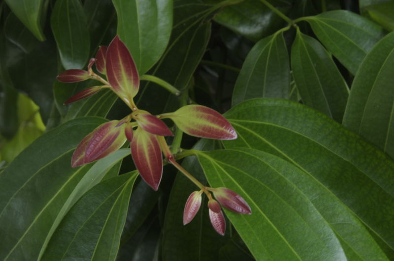 Leaves of the cinnamomum verum plant. Taken at the United States National Arboretum.